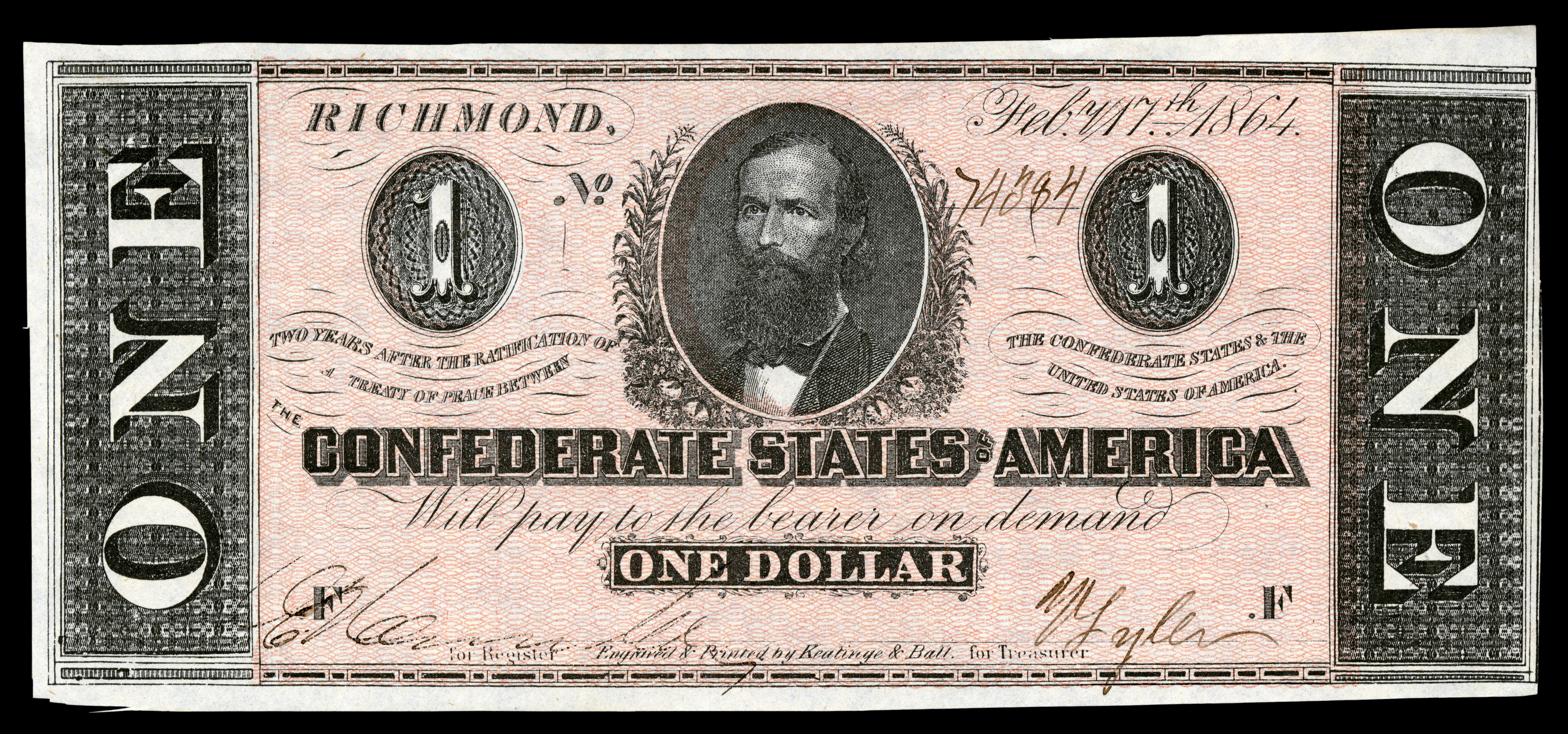 CSA-T71-$1-1864